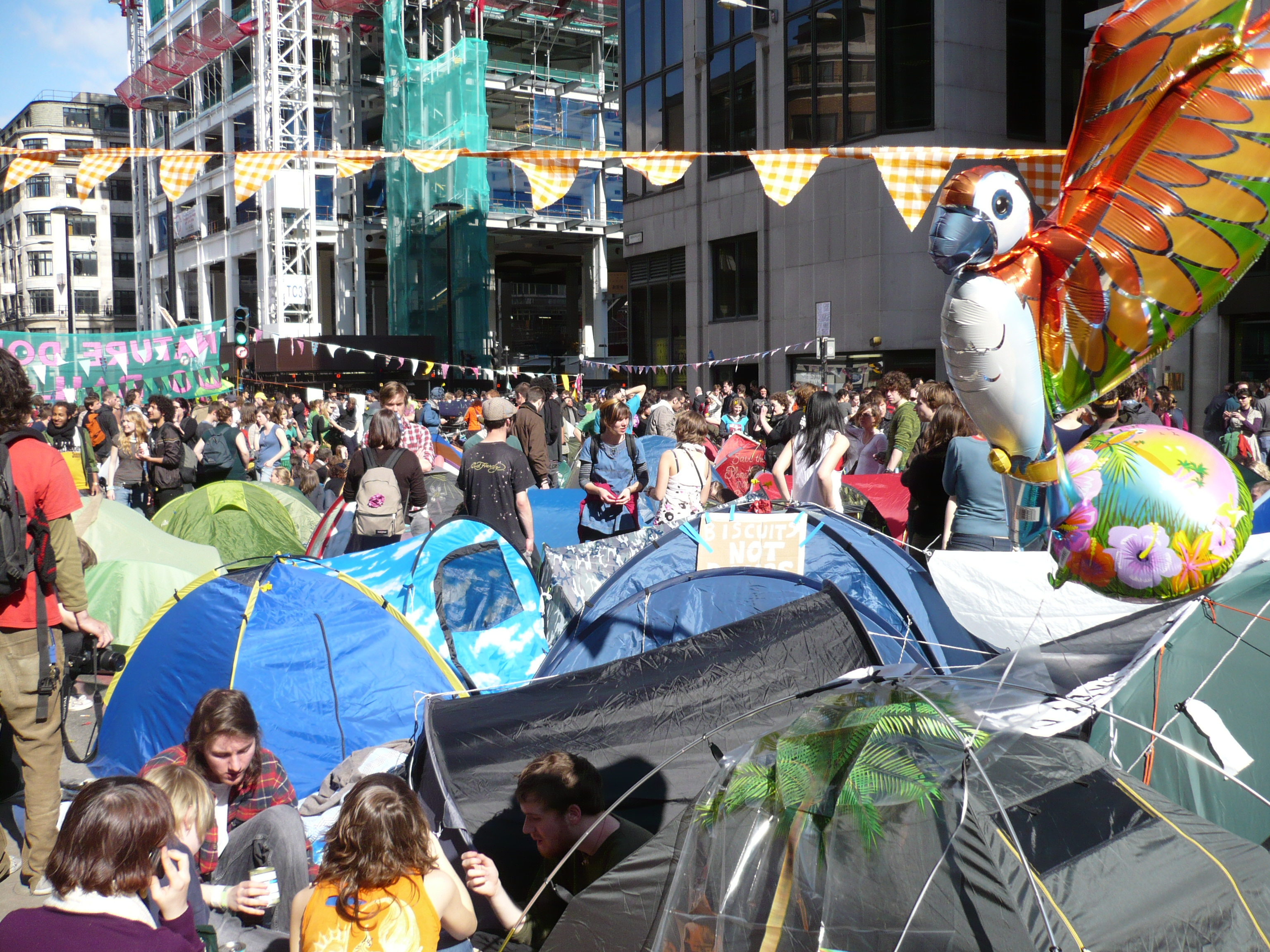 1st April 2009. Environmentalist protesters set up a tent city on the street in front of the European Climate Exchange. G20, London.